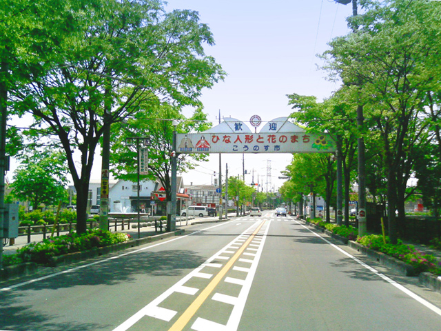 Saitama Prefectural road 136, Keyaki-dōri (zelkova street) in Kōnosu city, Saitama, Japan. which is a route to Saitama Pref. Driver's License Center, from Kōnosu station.